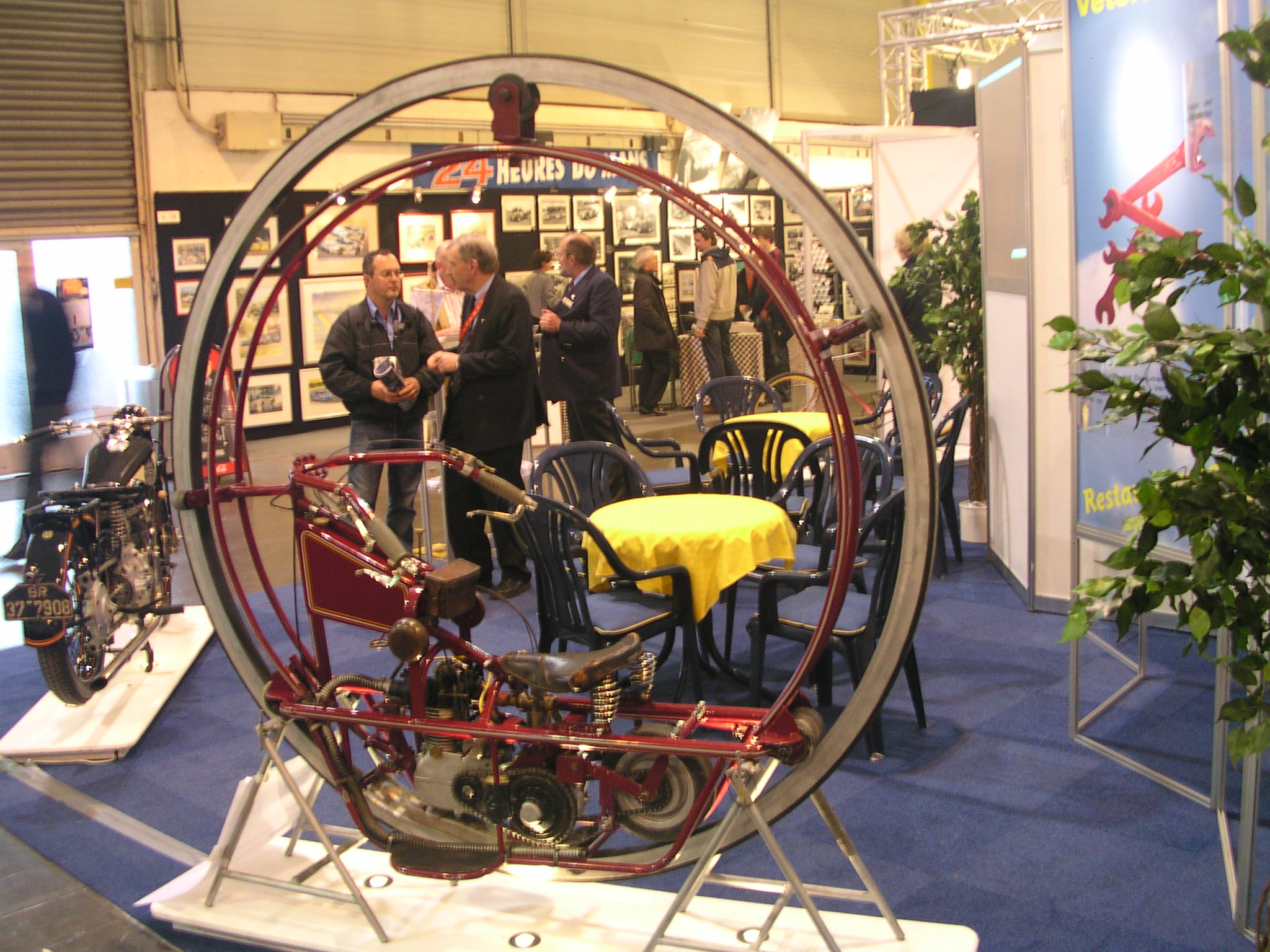 1924 circus monowheel engine: 250cc Horex Columbus (1924) & Buhrmann gearbox.